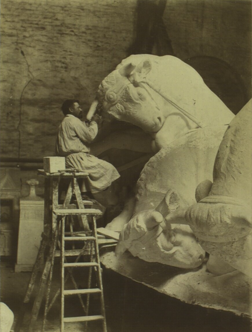 Anders Jensen Bundgaard (1864-1937), Danish sculptor, working on the Gefion Fountain